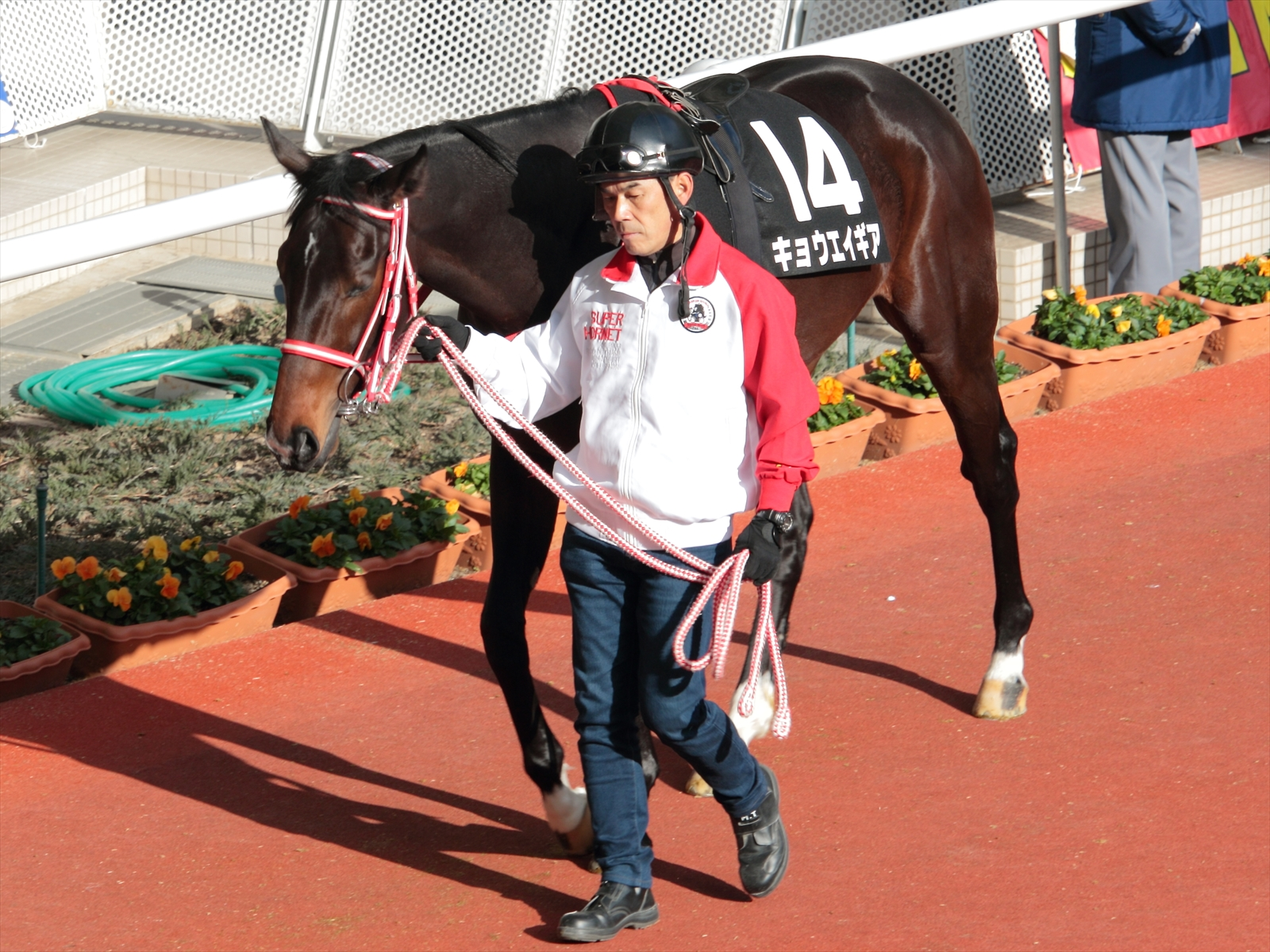 Kyoei Gere (Racehorse of Japan).